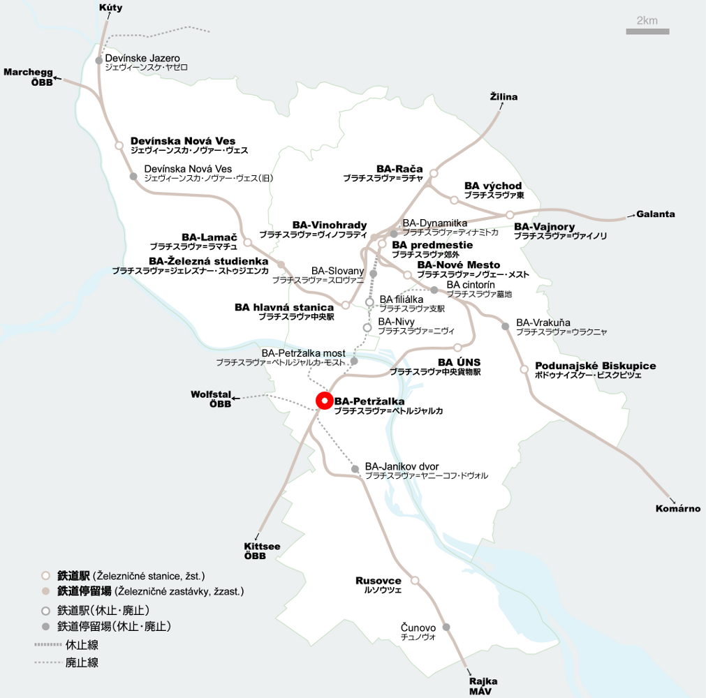 Location map of Železničná stanica Bratislava-Petržalka with Japanese language